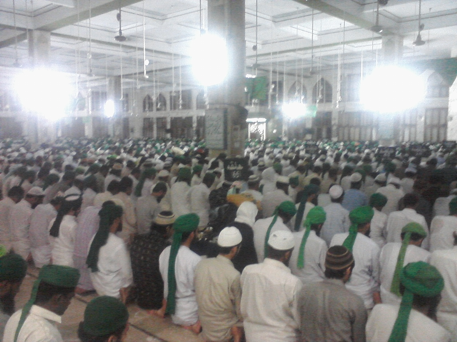 Namaz At Faizan e Madinah